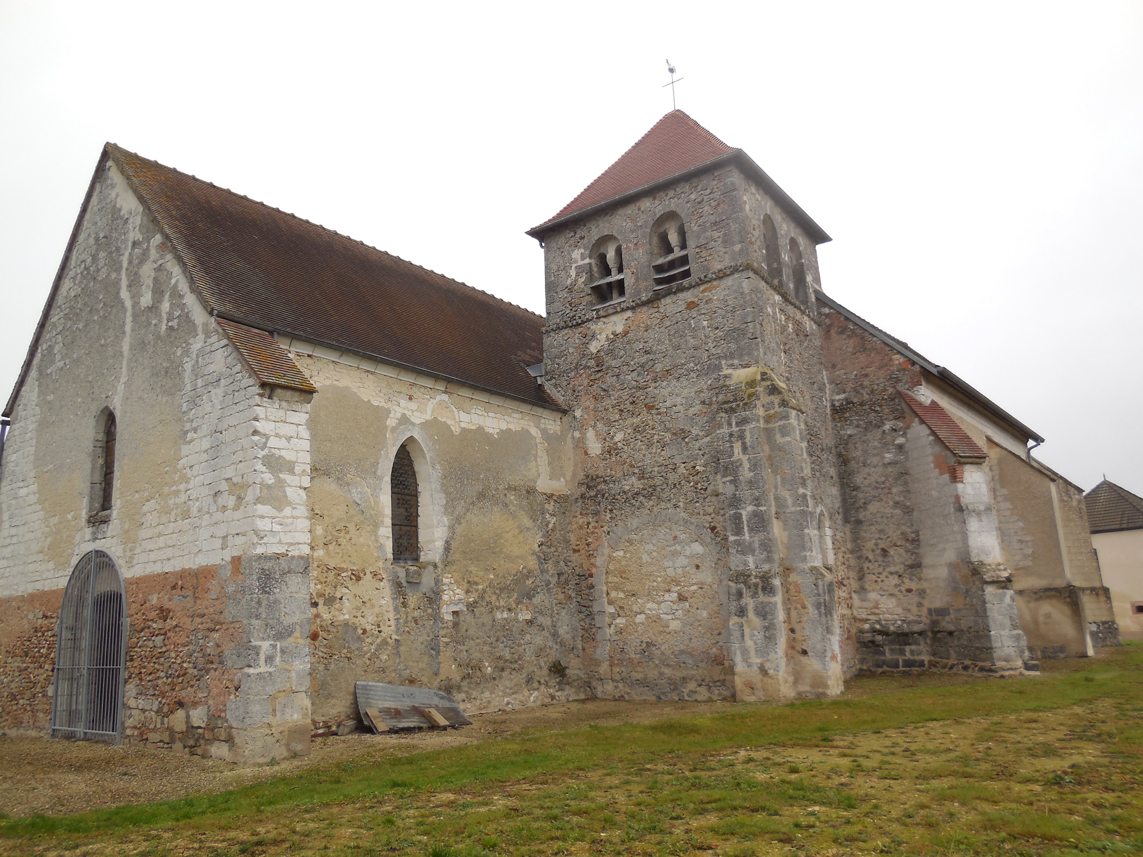 Saint-Blaise church of Angluzelles (Marne, France)